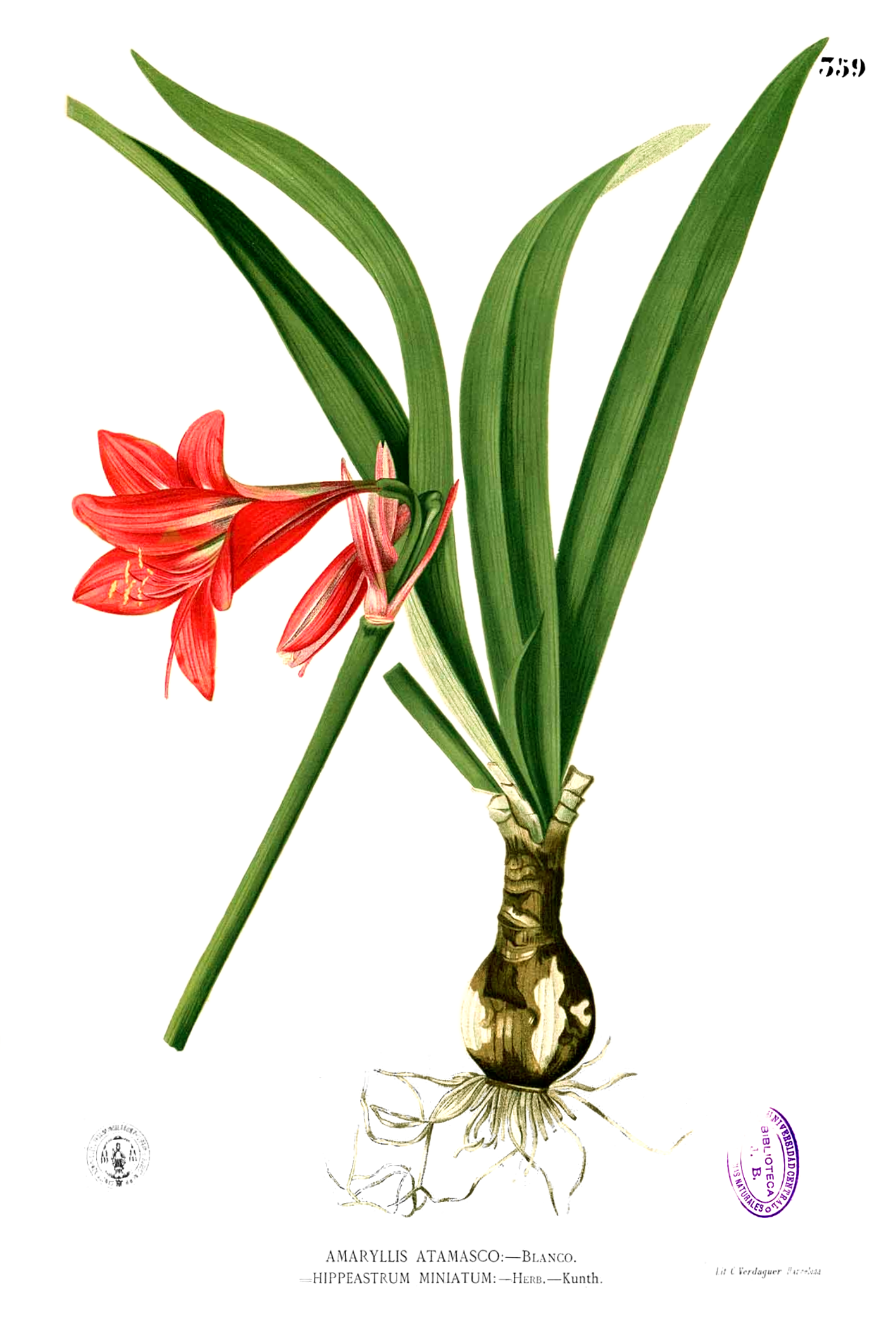 Plate from book